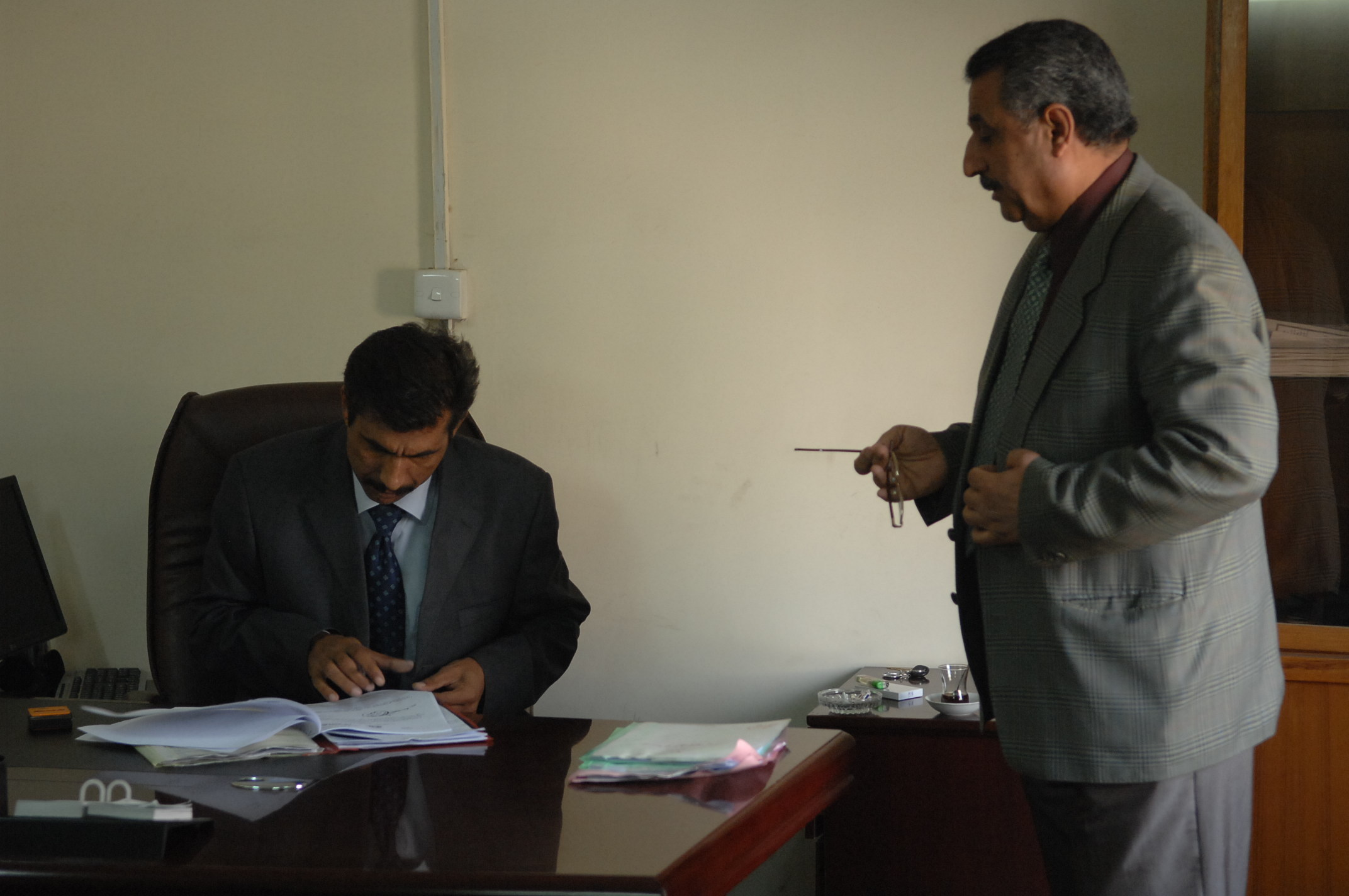 An Iraqi judge looks over documents during a meeting in Baghdad, Iraq, Dec. 7, 2009. The concept of the operation was to have the Iraqi national police, and 5-2nd Federal Police Training Team, attached to the 30th Heavy Brigade Combat Team, 1st Cavalry Division, meet with the judge to increase relations in hopes of help with future warrants.